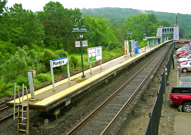 Photographed by Daniel Case 2006-07-05 from the stairs leading up to Route 116